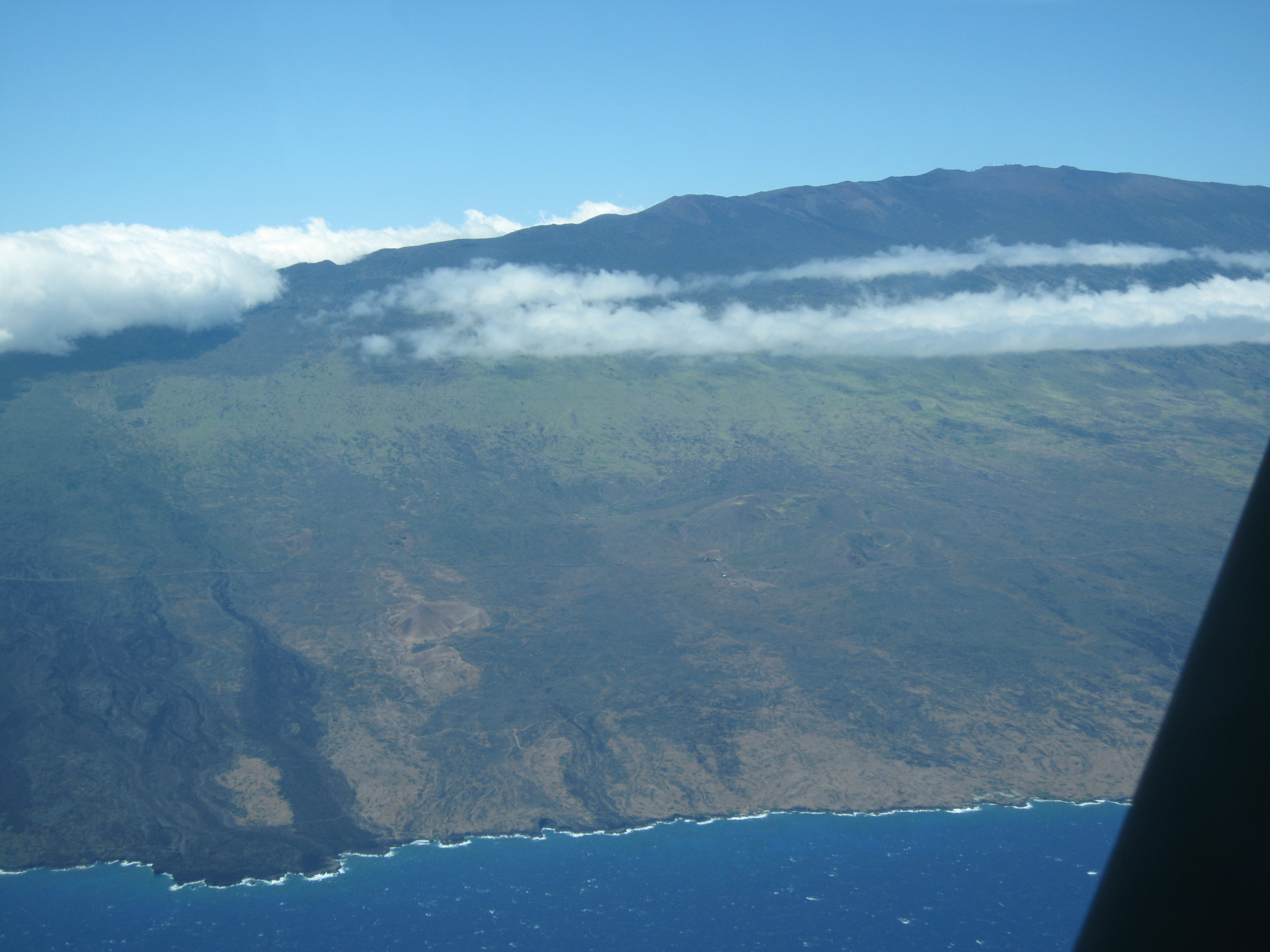 Aerial view of Haleakala, from the south coast of Maui